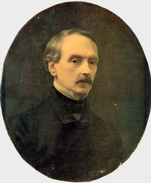 Peter Shamshin (dead at 1895)